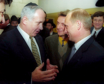 Russian president Vladimir Putin with former Israeli Prime Minister Benjamin Netanyahu (1996–1999), at the Jewish Community Centre in Moscow.